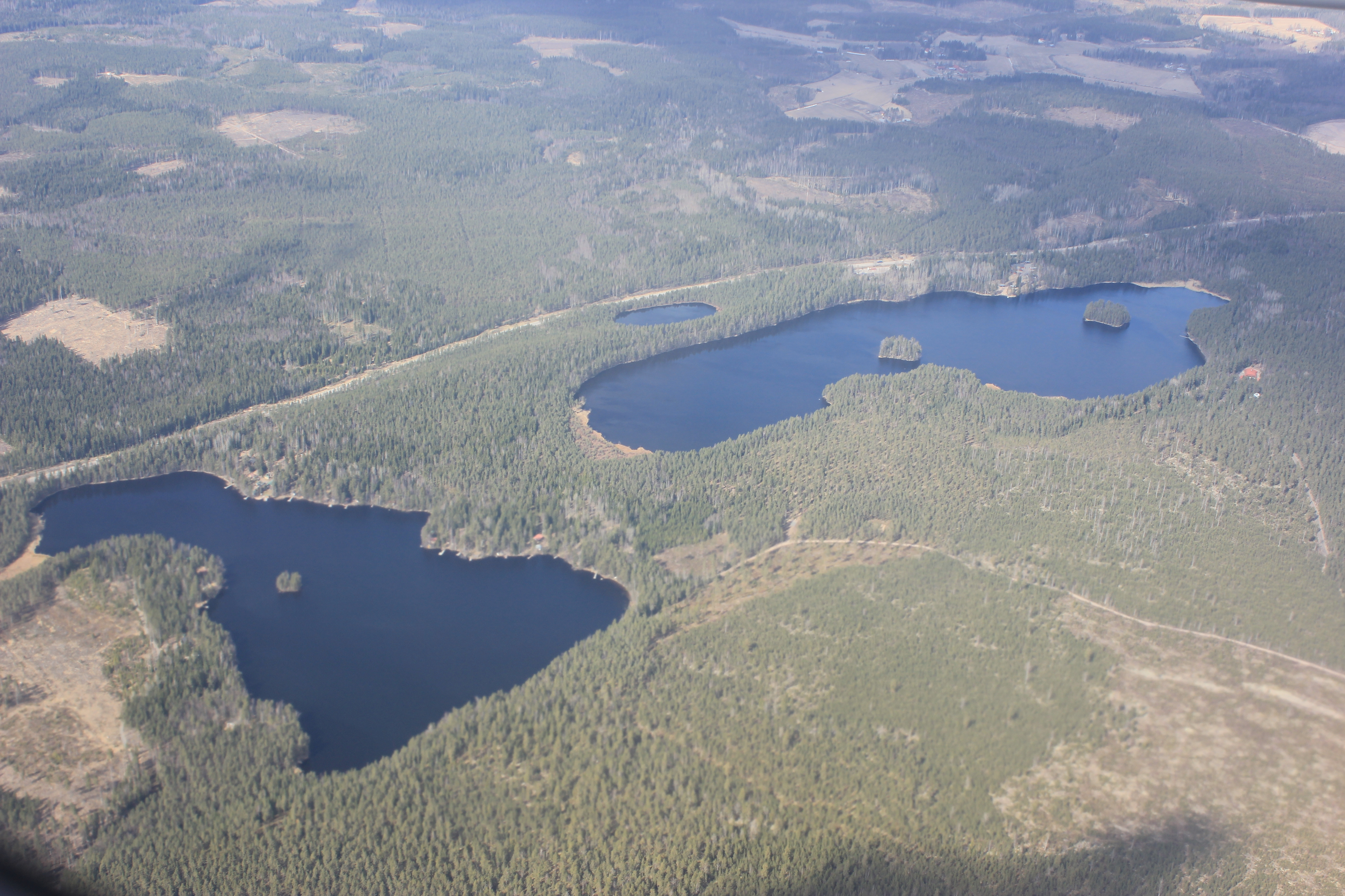 Lakes Vihtilammi, Märklö and Kakari